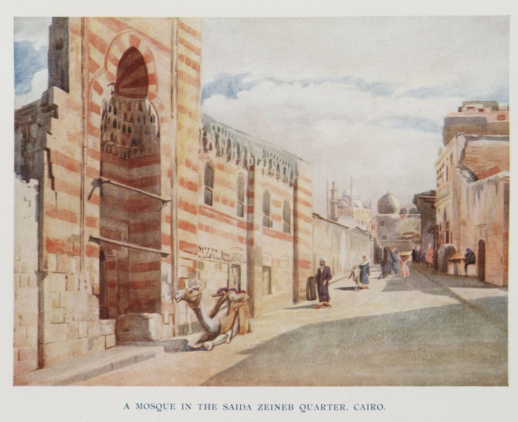 A camel kneeling in front of a mosque. Painting.